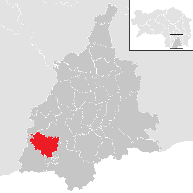 District Leibnitz